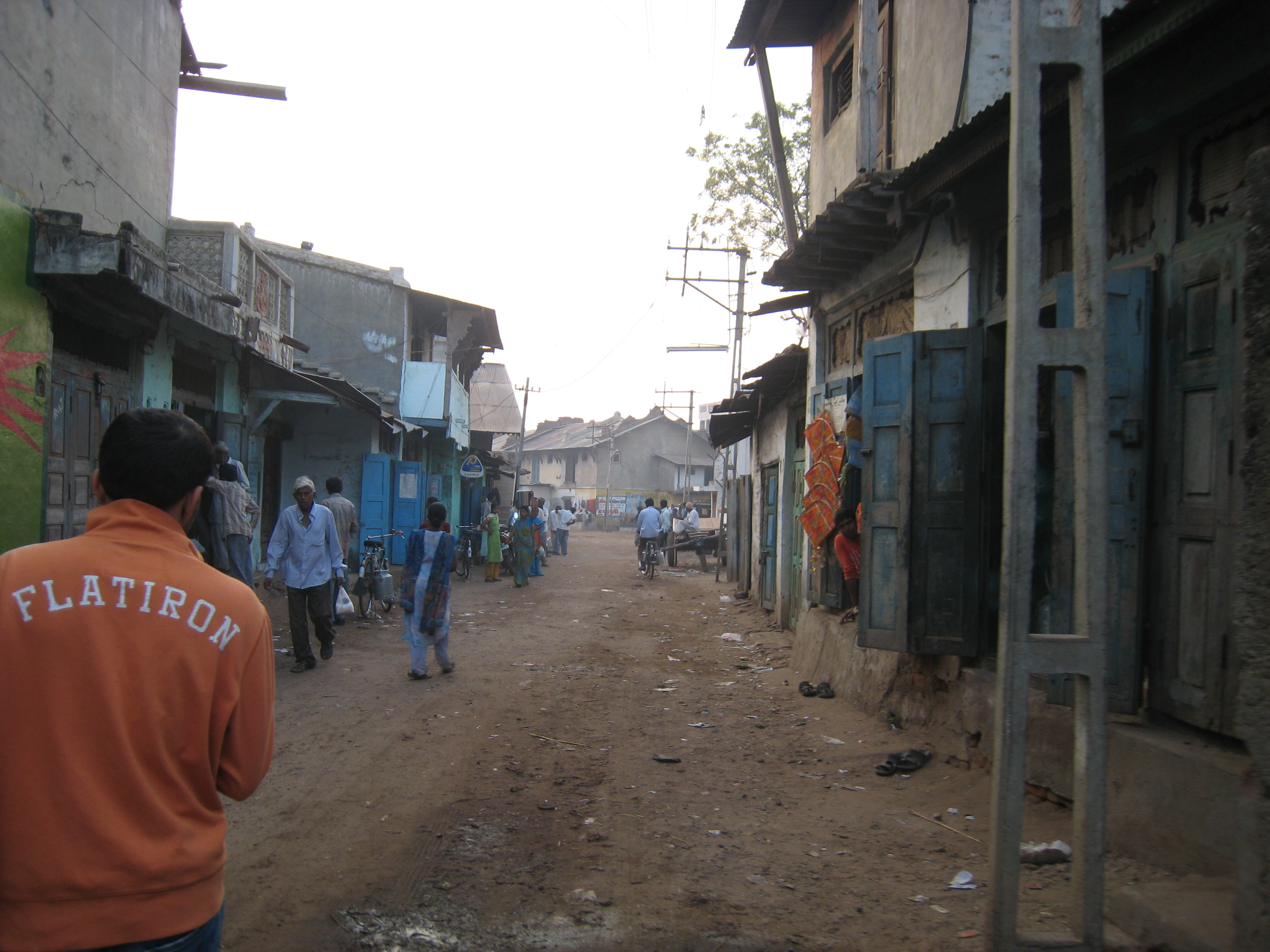 telnar